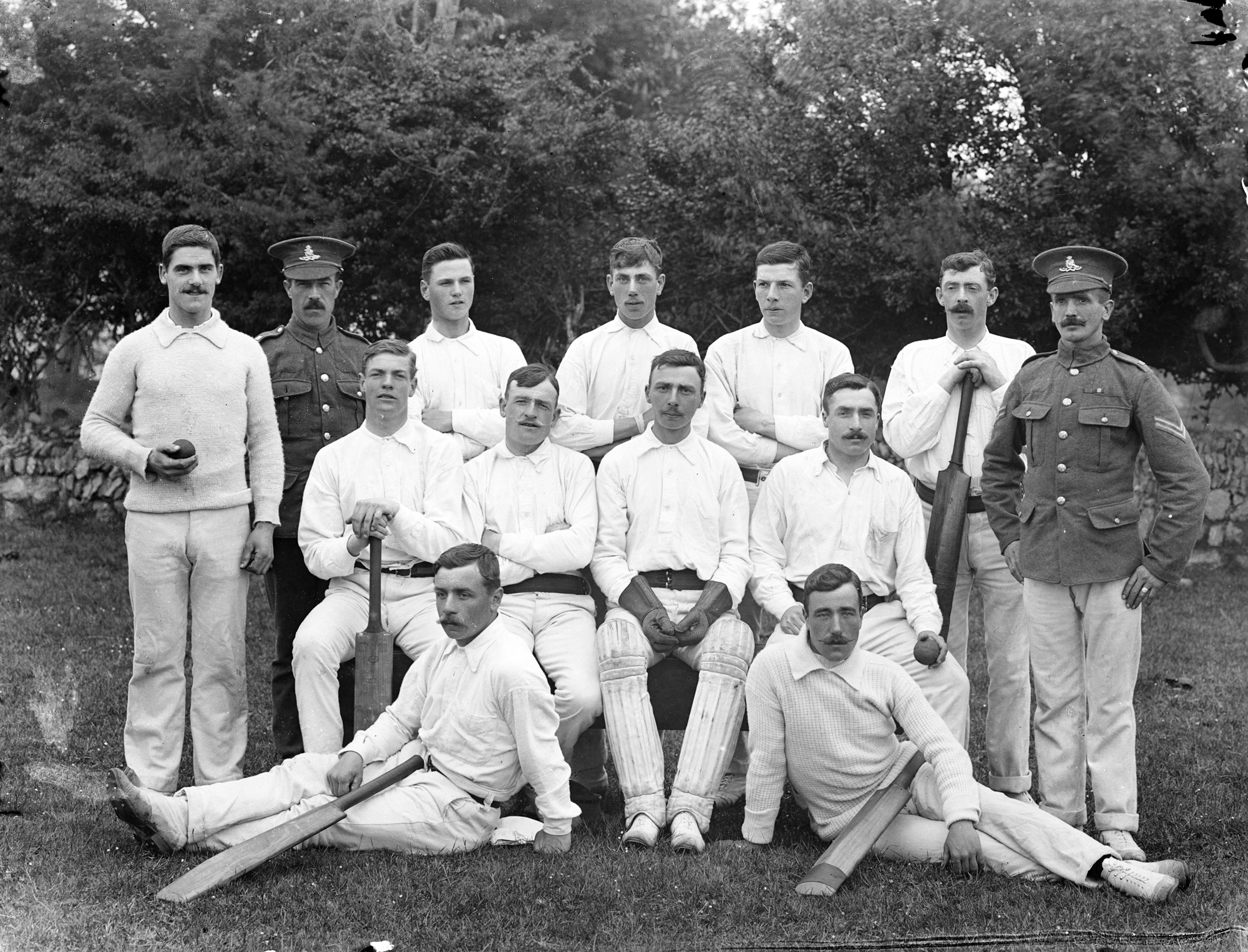 Cricket Team at Barracks, (almost certainly) Waterford. Date: Saturday, 22 May 1909 NLI Ref.: P_WP_1924